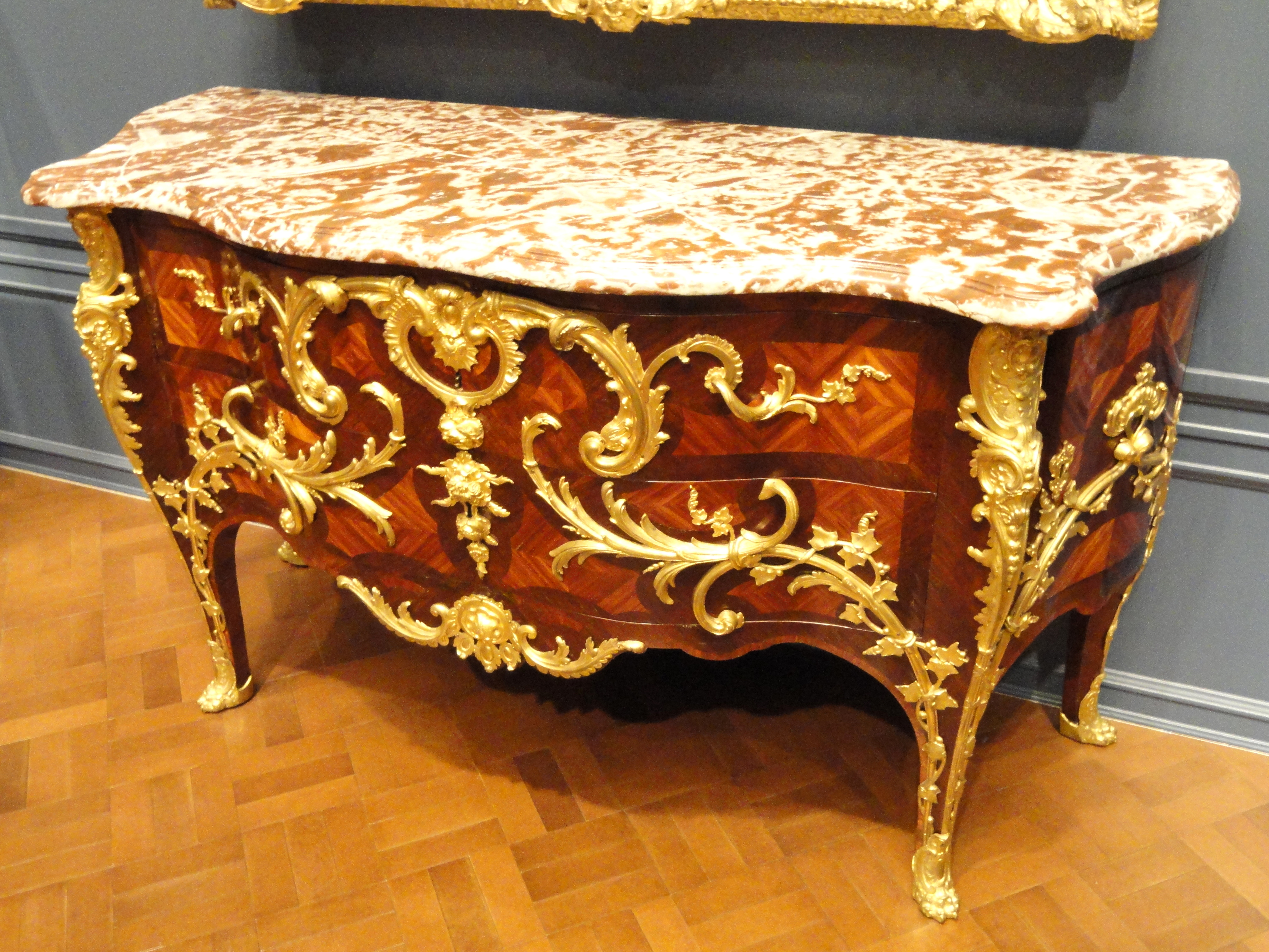 Exhibit in the Nelson-Atkins Museum of Art, Kansas City, Missouri, USA. This item is old enough so that it is in the public domain. ; I took this photograph and release it into the public domain.